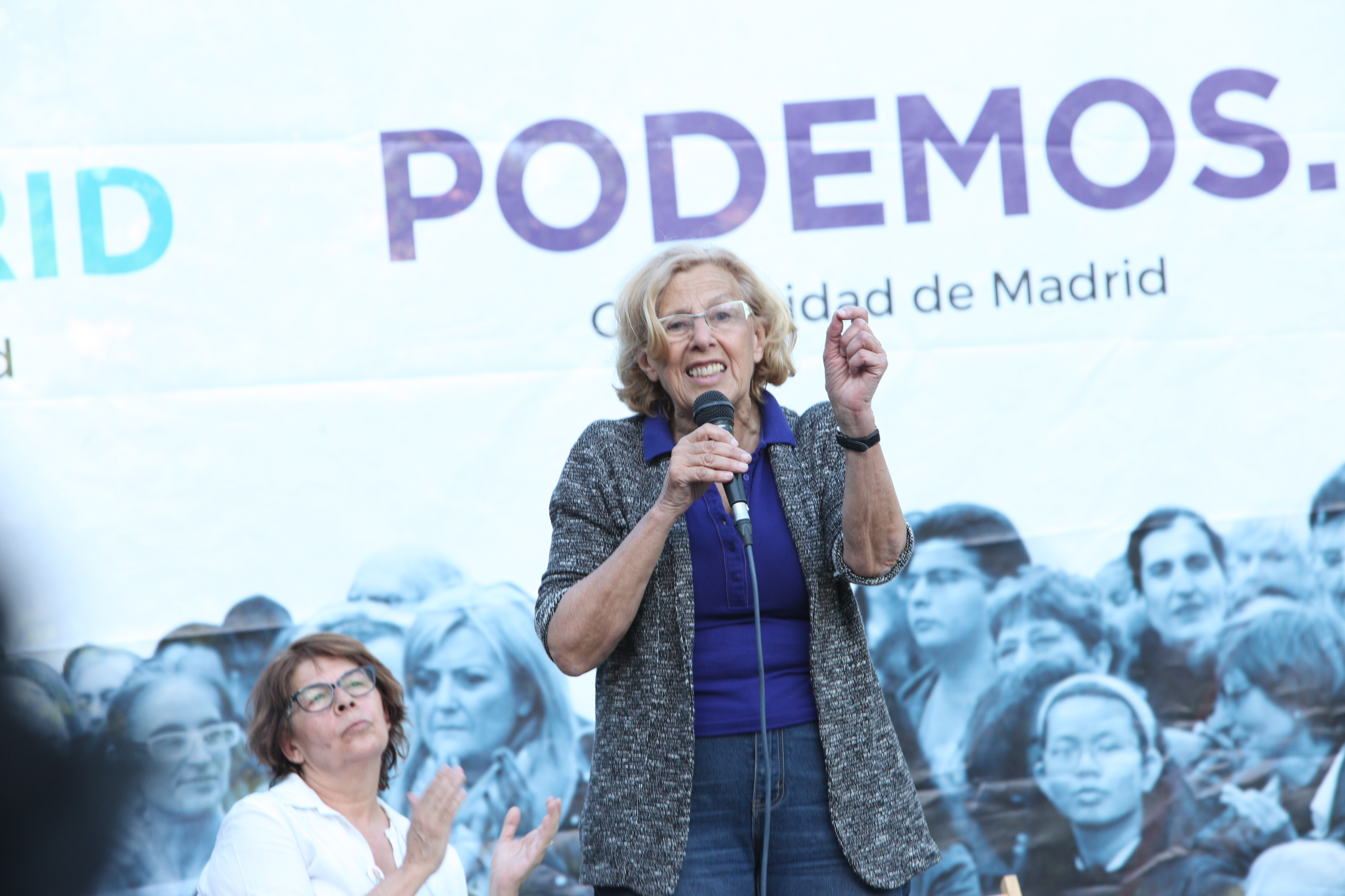 Manuela Carmena as candidate for major of Madrid with Ahora Madrid party.